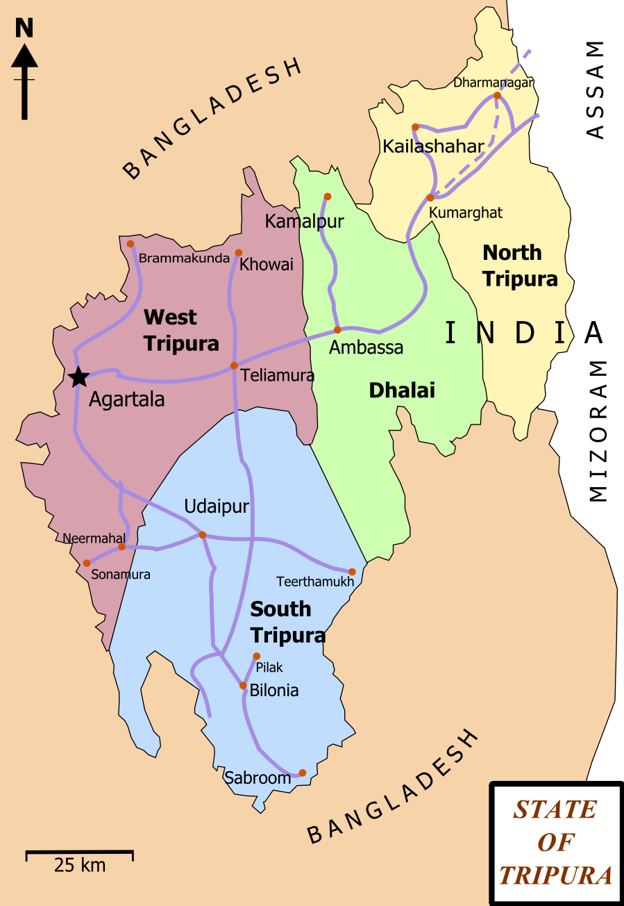 Map of State of Tripura. The map shows the former 4 districts of Tripura, with the state's roads and railway networks detailed. Railway was extended upto Agartala from Kumbarghat and opened by 2008.[1] Locator map of the state of Tripura, India with district boundaries.